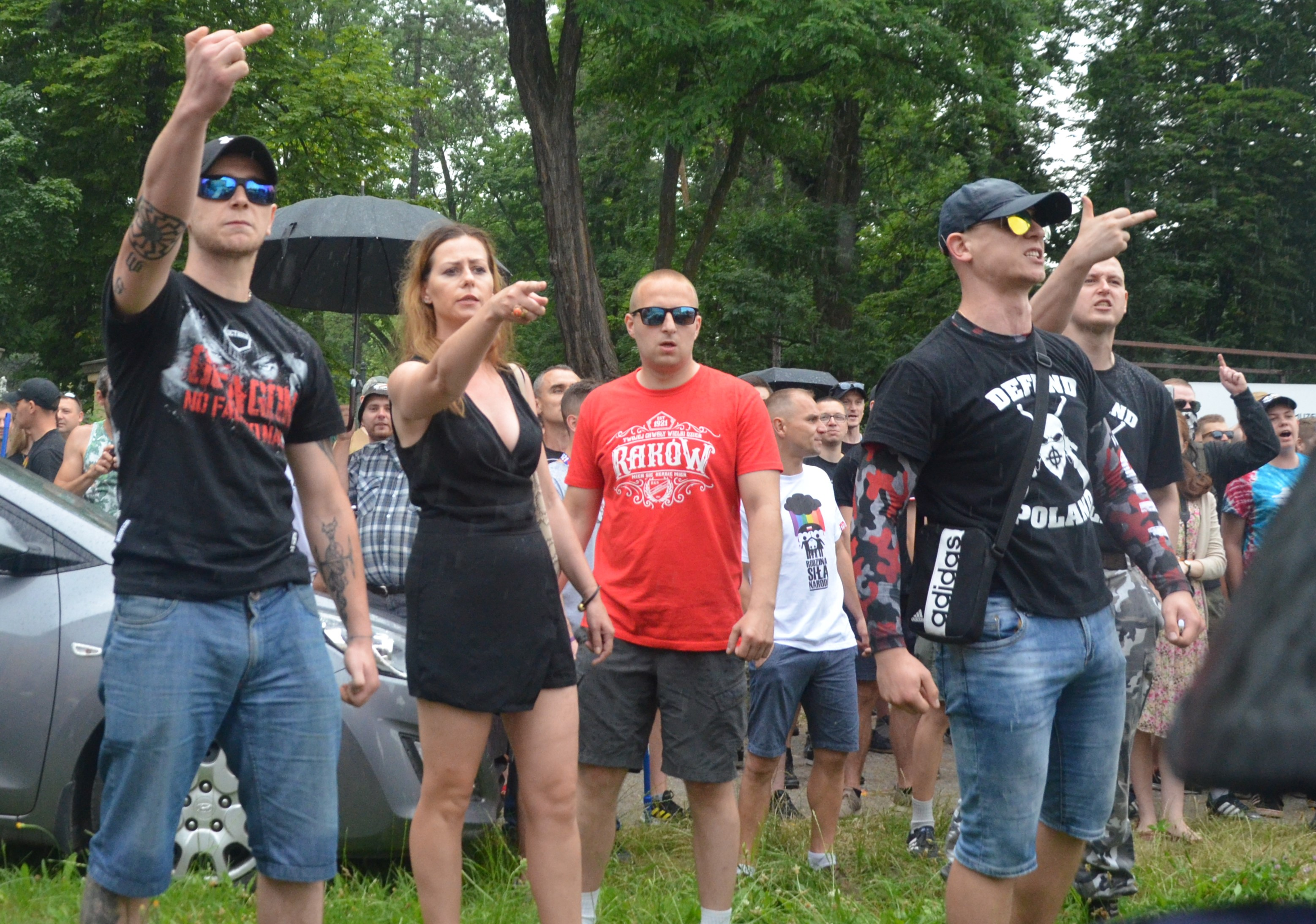 Katholische Rechtsradikale Gegendemonstranten bei der CzestochowaPride-Parade, Jasna Góra, Pöbel